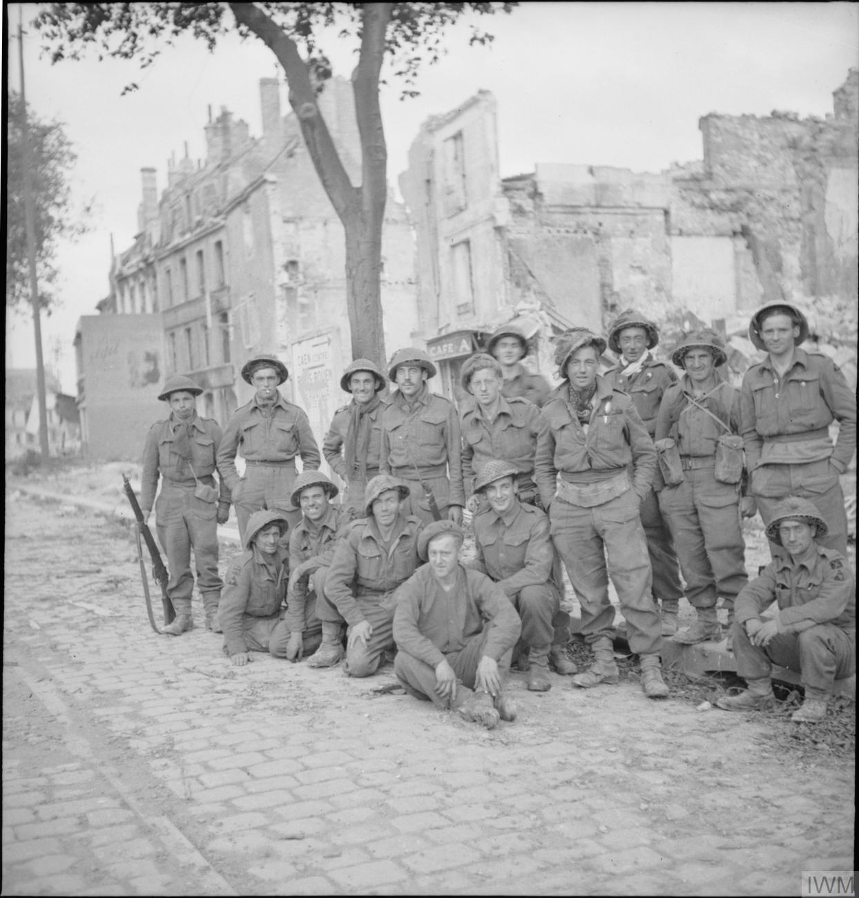 The British Army in the Normandy Campaign 1944 Men of 1st King's Own Scottish Borderers, 3rd Division, some of the first troops to enter Caen after Operation 'Charnwood', 9 July 1944.